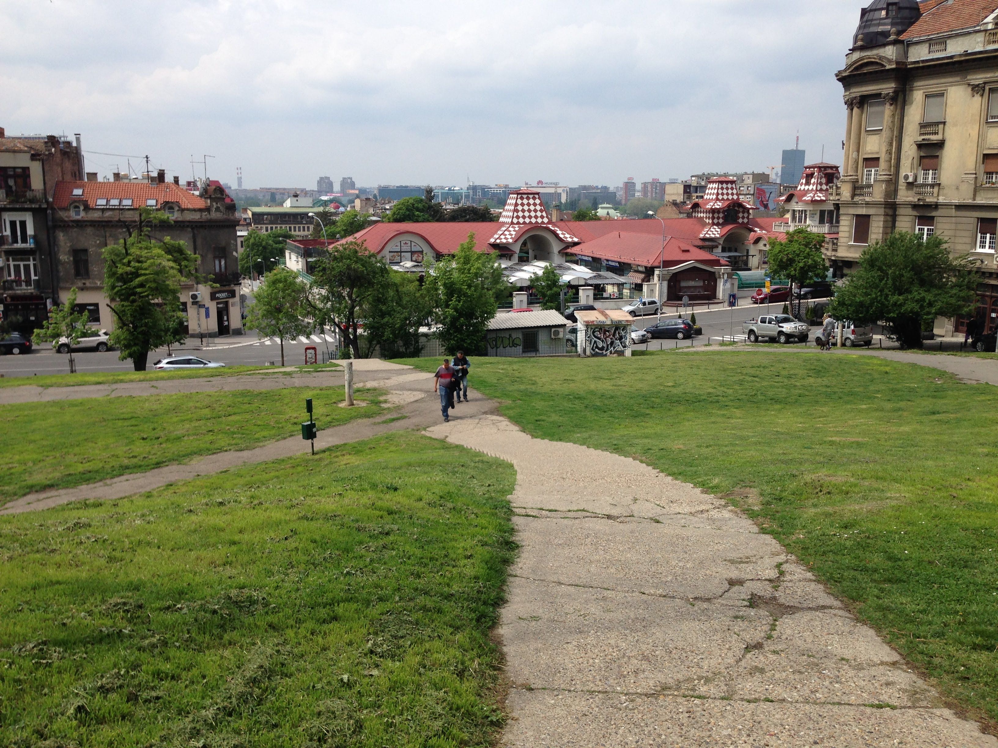 Terazije teracce